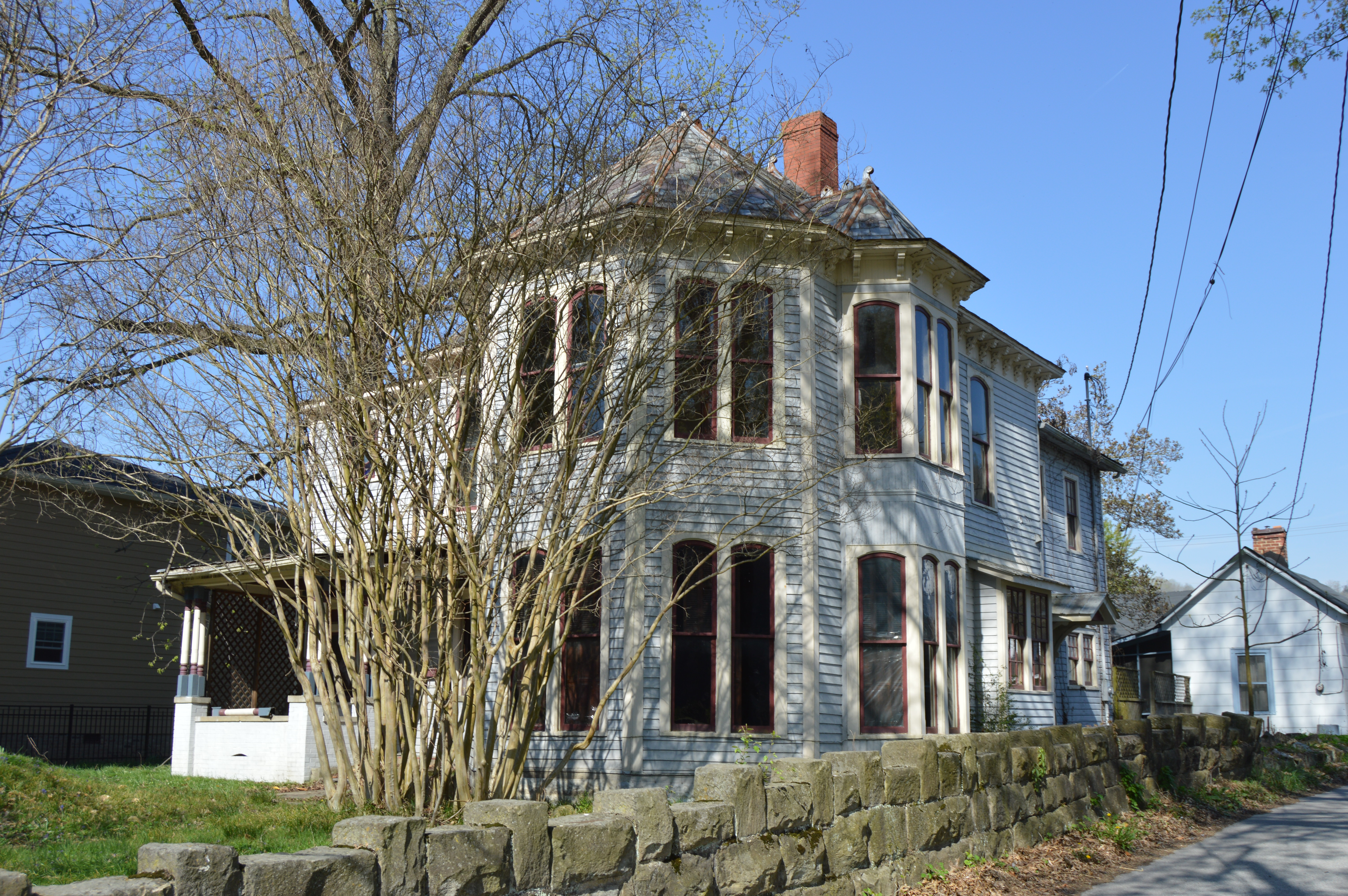 Front and northern side of the York House, located at 223 Main Street in Pikeville, Kentucky, United States. Built in 1864, it is listed on the National Register of Historic Places.